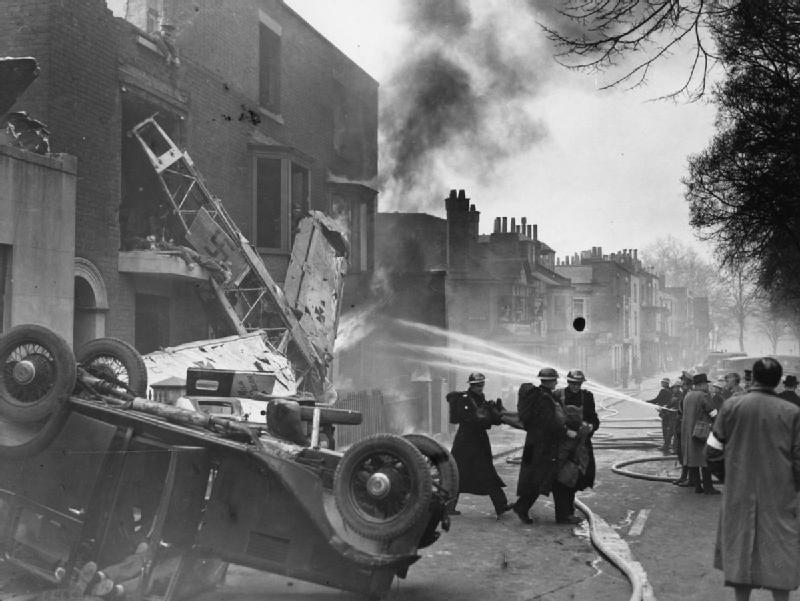 Air Raid Precautions, 1940 Firemen tackle a blaze during a large-scale Air Raid Precautions (ARP) exercise in the south coast towns of Portsmouth, Gosport and Southampton on 25 February 1940. An imitation Luftwaffe aircraft and an overturned car containing a 'dead' body present difficulties to the ARP services.